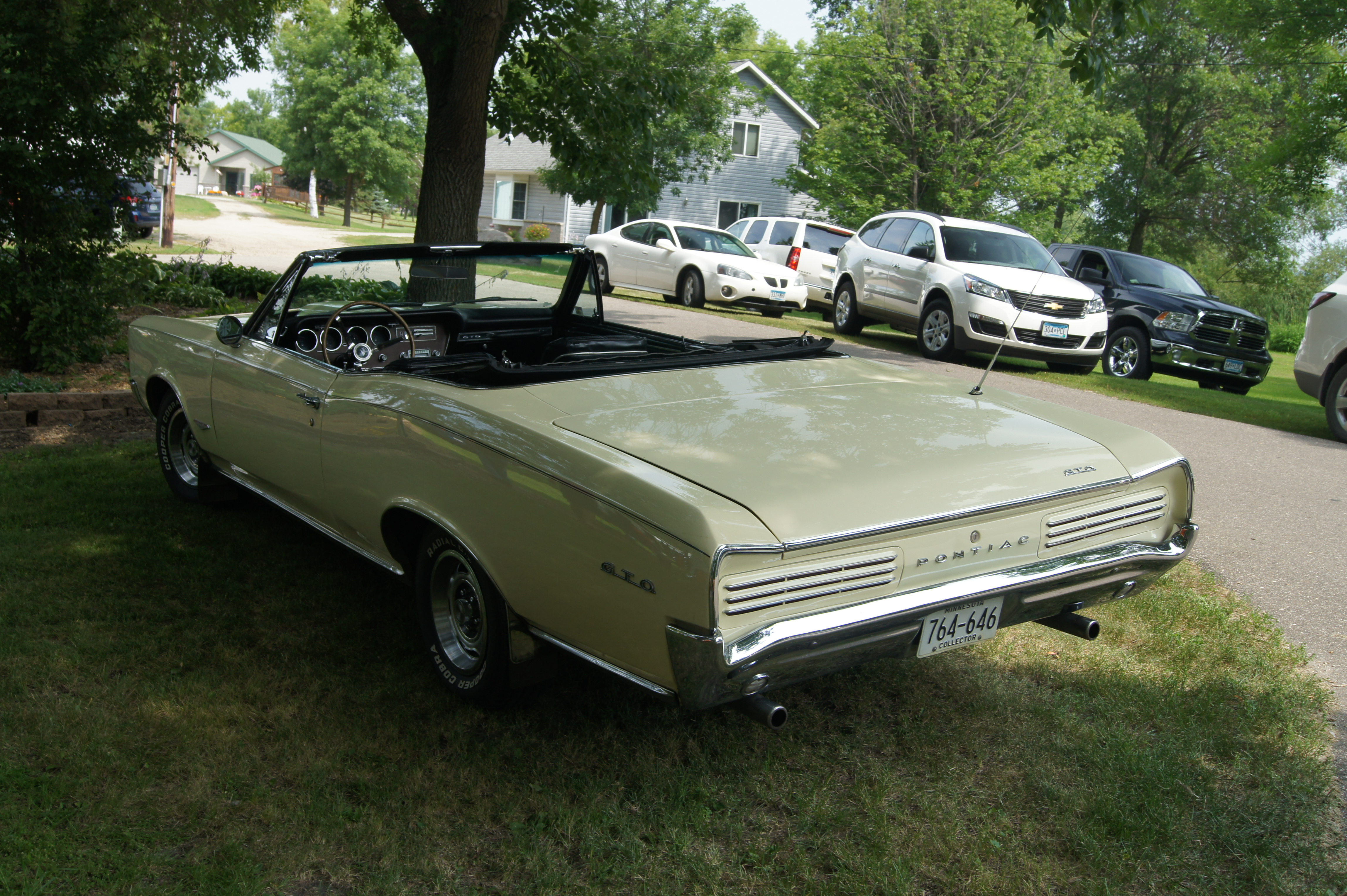 Lake Minnewaska Classics Car Show August 2, 2014 Starbuck, Minnesota Thousands more of my car pictures available by clicking link below